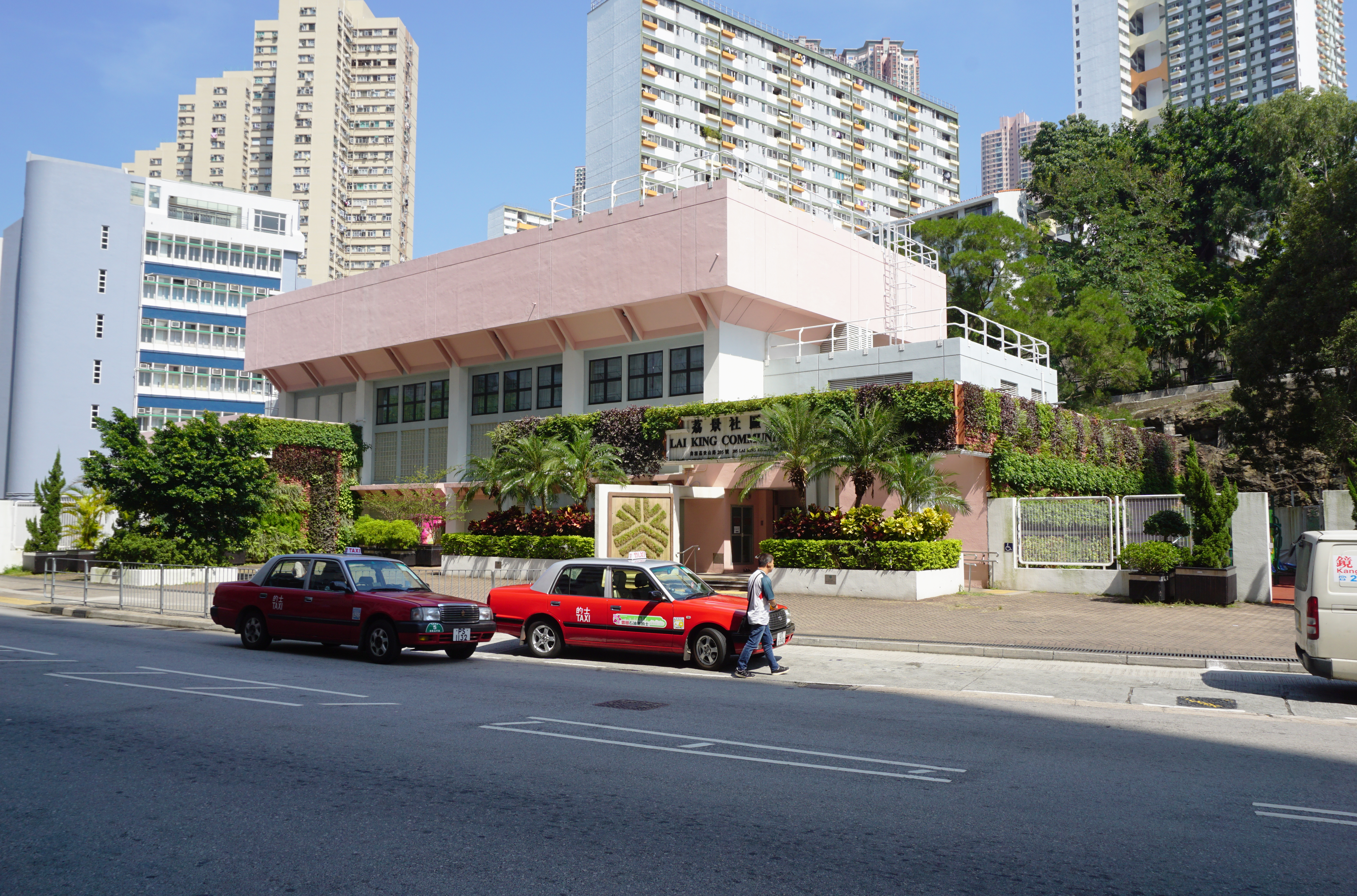 Community Hall in Lai King, Hong Kong.